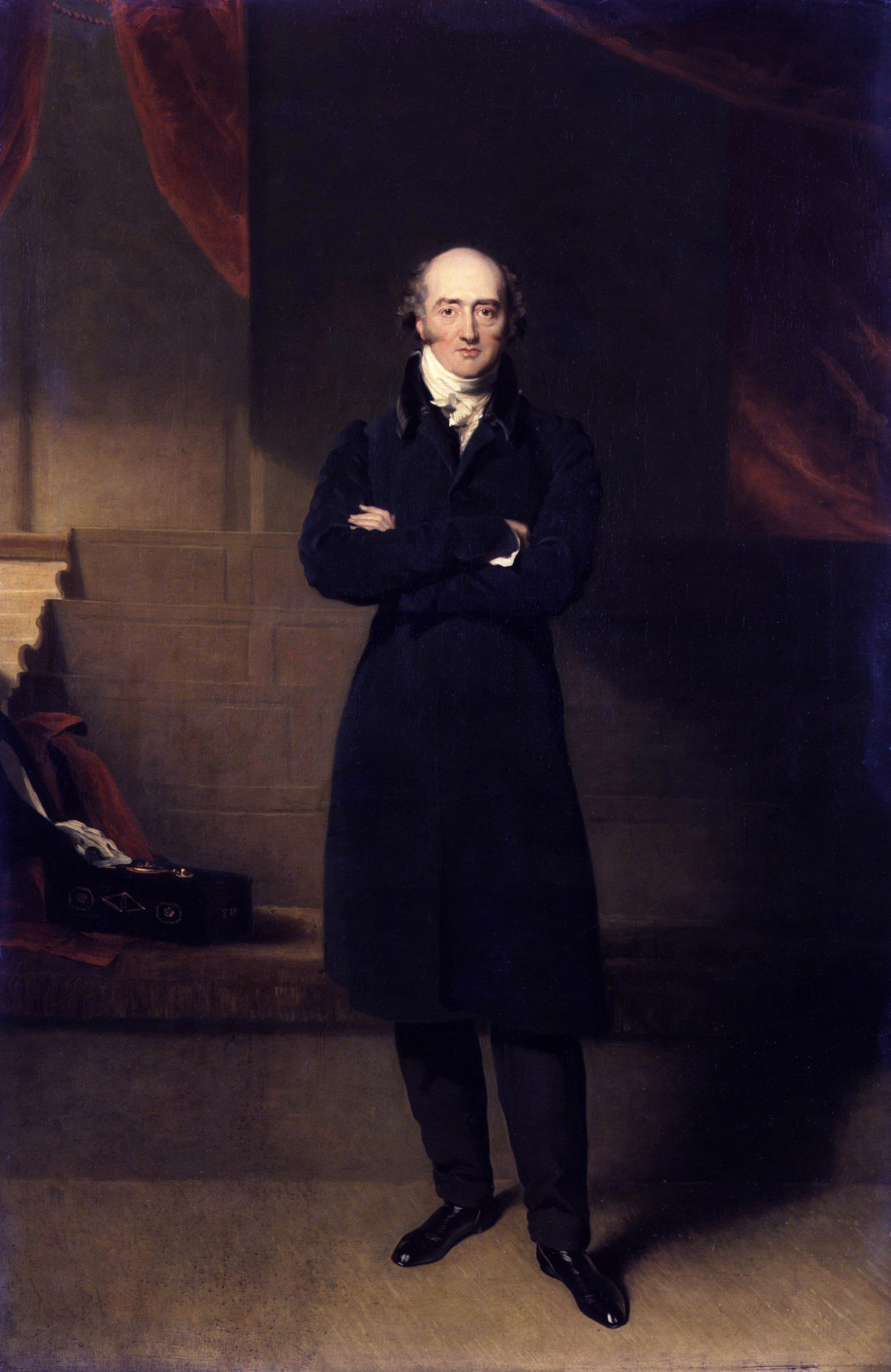 Portrait of George Canning (1770–1827)